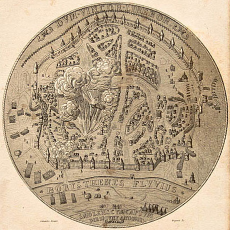 Medal for capture of Smolensk, 1611